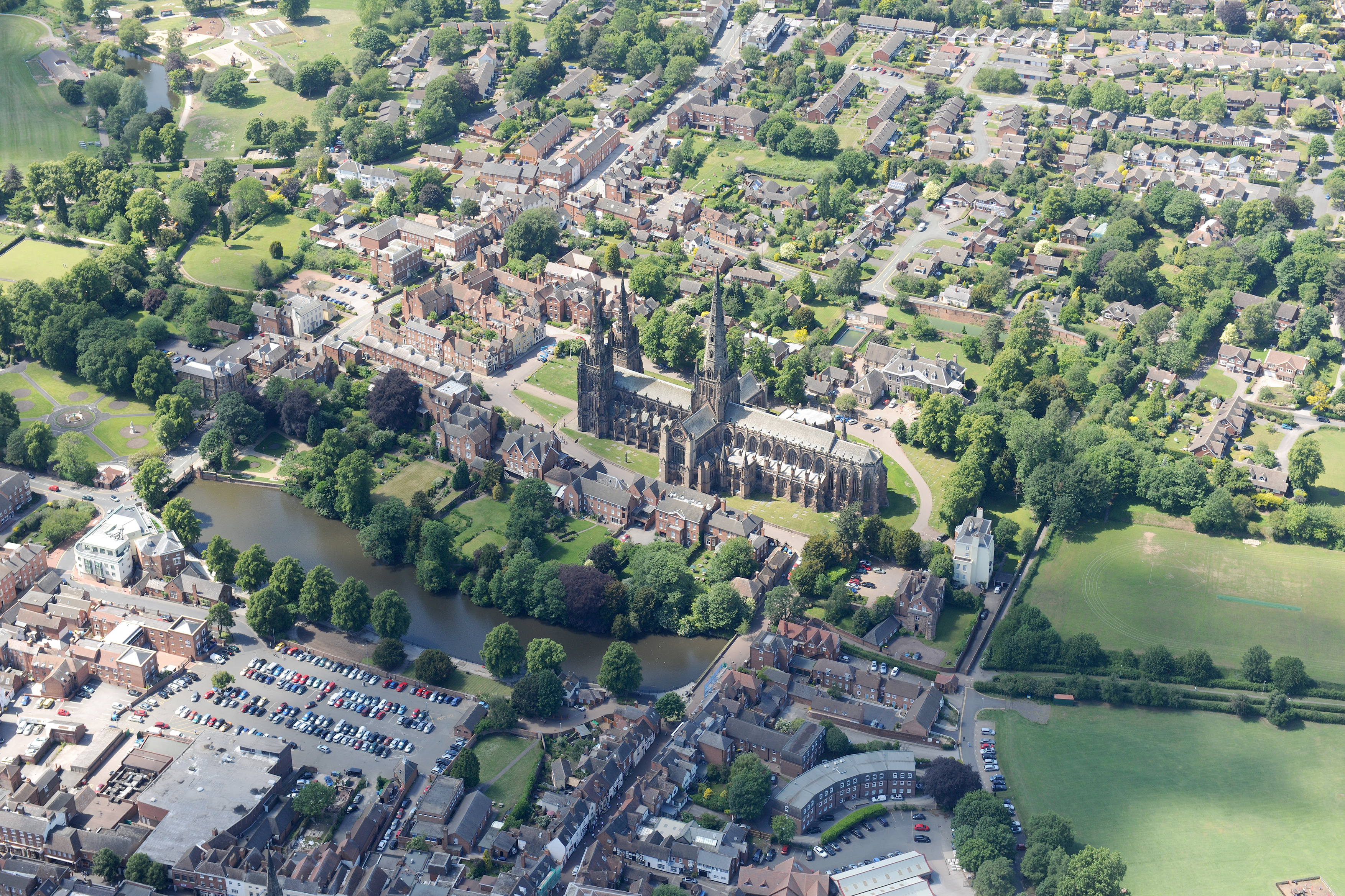 Lichfield Cathedral, Staffordshire, England. Photo taken by the West Midlands Police helicopter during routine operations.